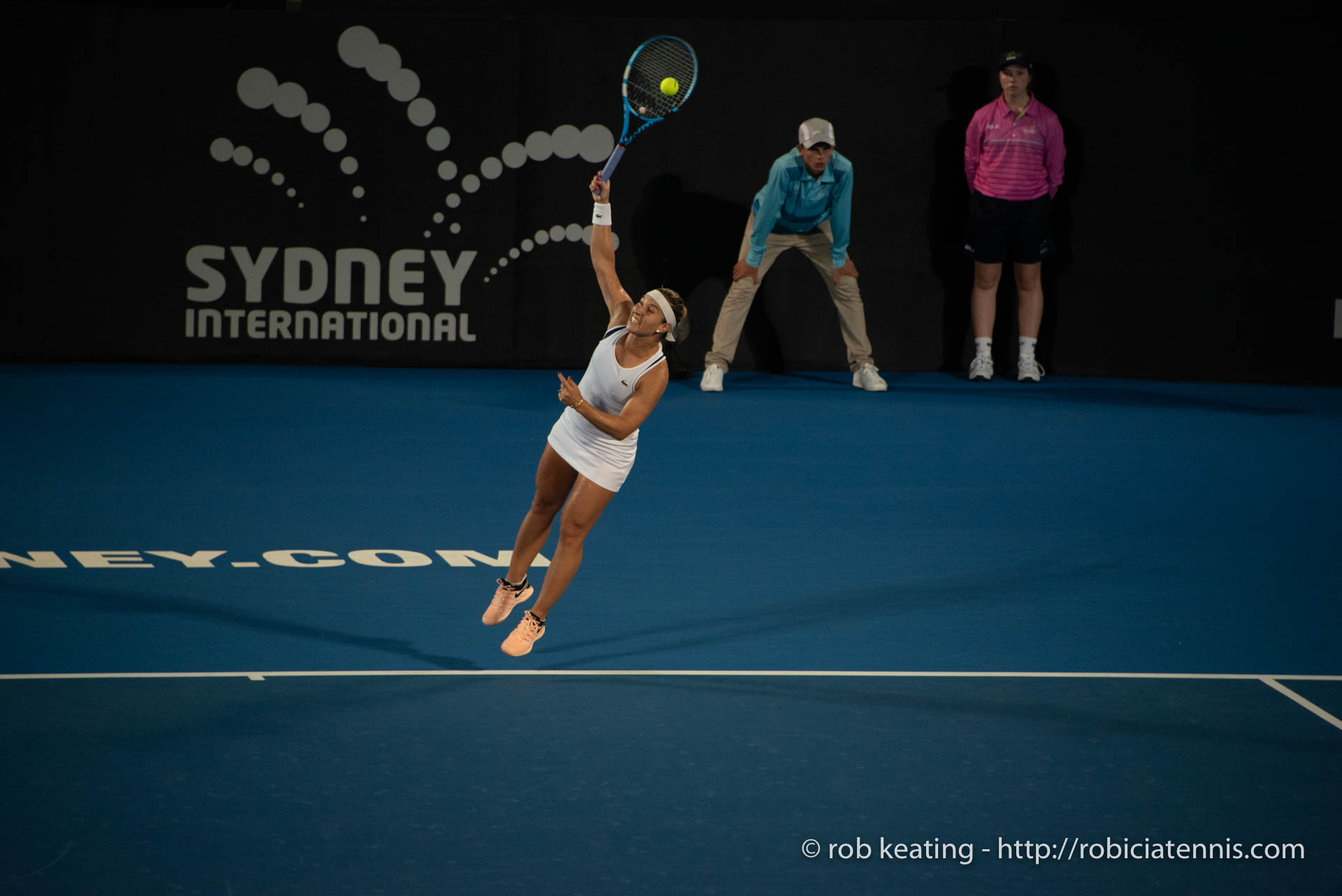 Sydney, Australia - 7 January 2018: Dominika Cibulkova serving on Ken Rosewall Arena, Sydney Olympic Park. (Photo by Rob Keating/robiciatennis.com)